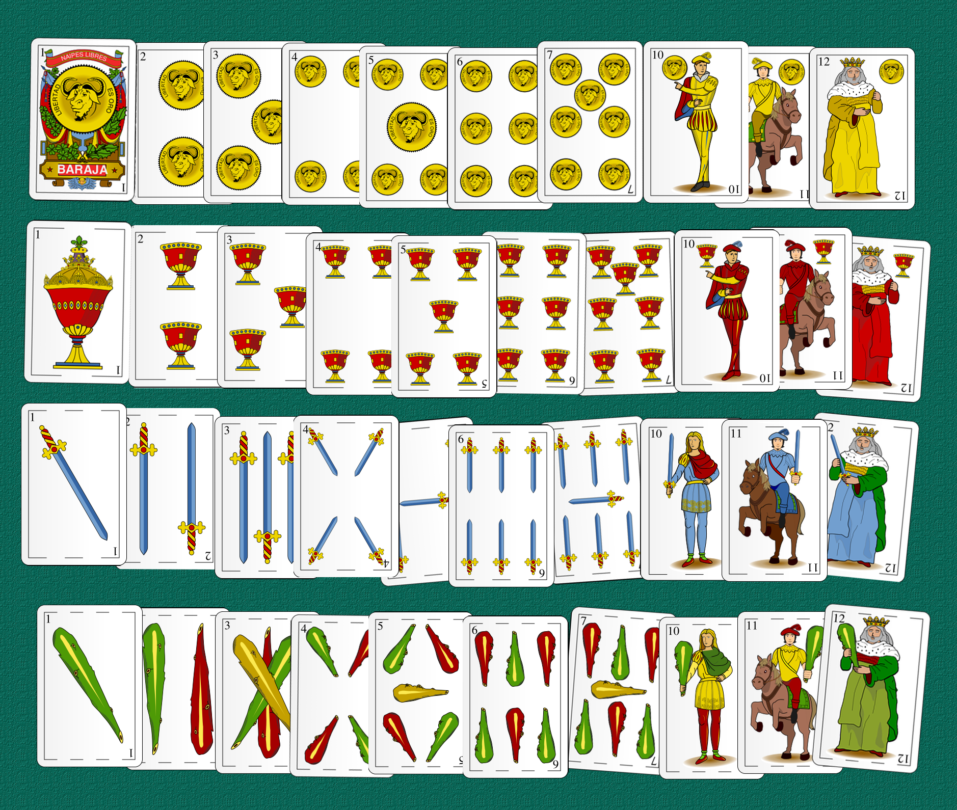 Deck of cards spanish style, with GNU theme. 40 cards